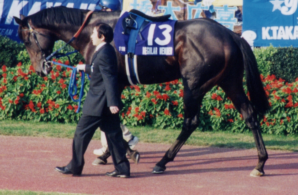 Regular Member (horse)